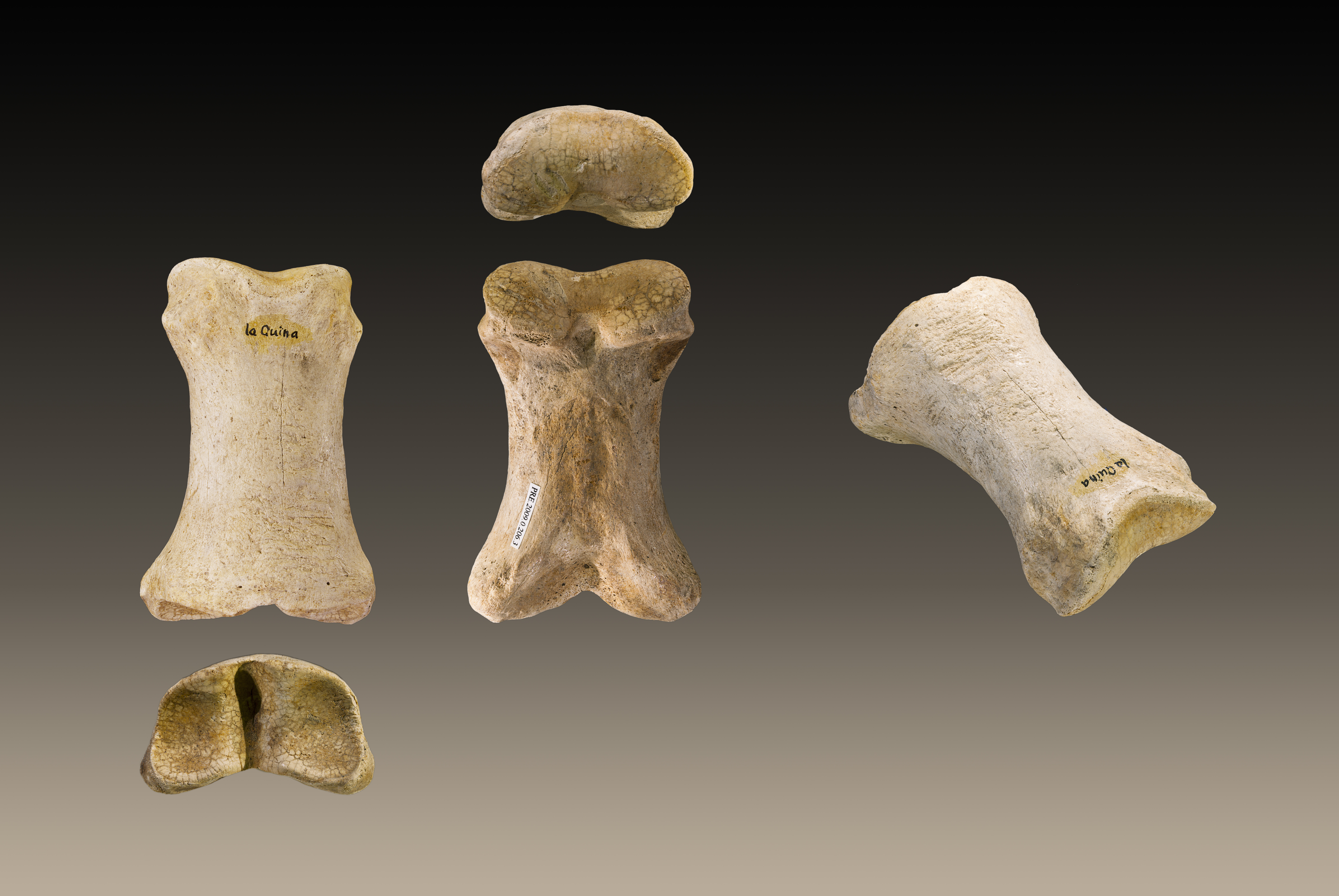 Retoucher in bone, on phalanx of equine. Stage : Middle Paleolithic (Quina Mousterian) (to – 300 000 to - 30 000 Before the Current Era) Locality : La Quina, Gardes-le-Pontaroux, Charente, France Former collection of Léon Henri-Martin (1864 - 1936)) Muséum of Toulouse MHNT.PRE.2009.0.206.3 Size : 89x58x38 mm